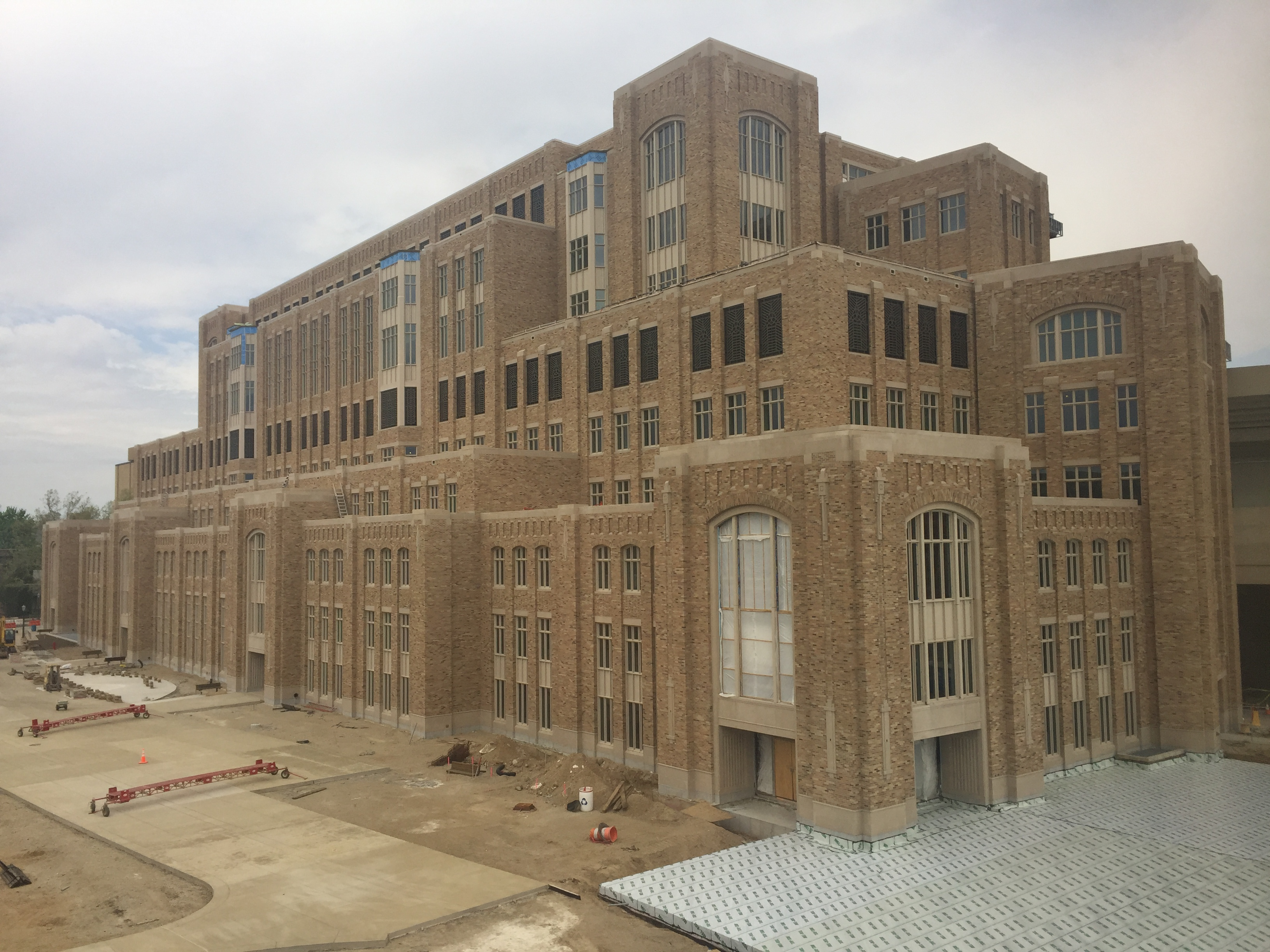 Campus of the University of Notre Dame